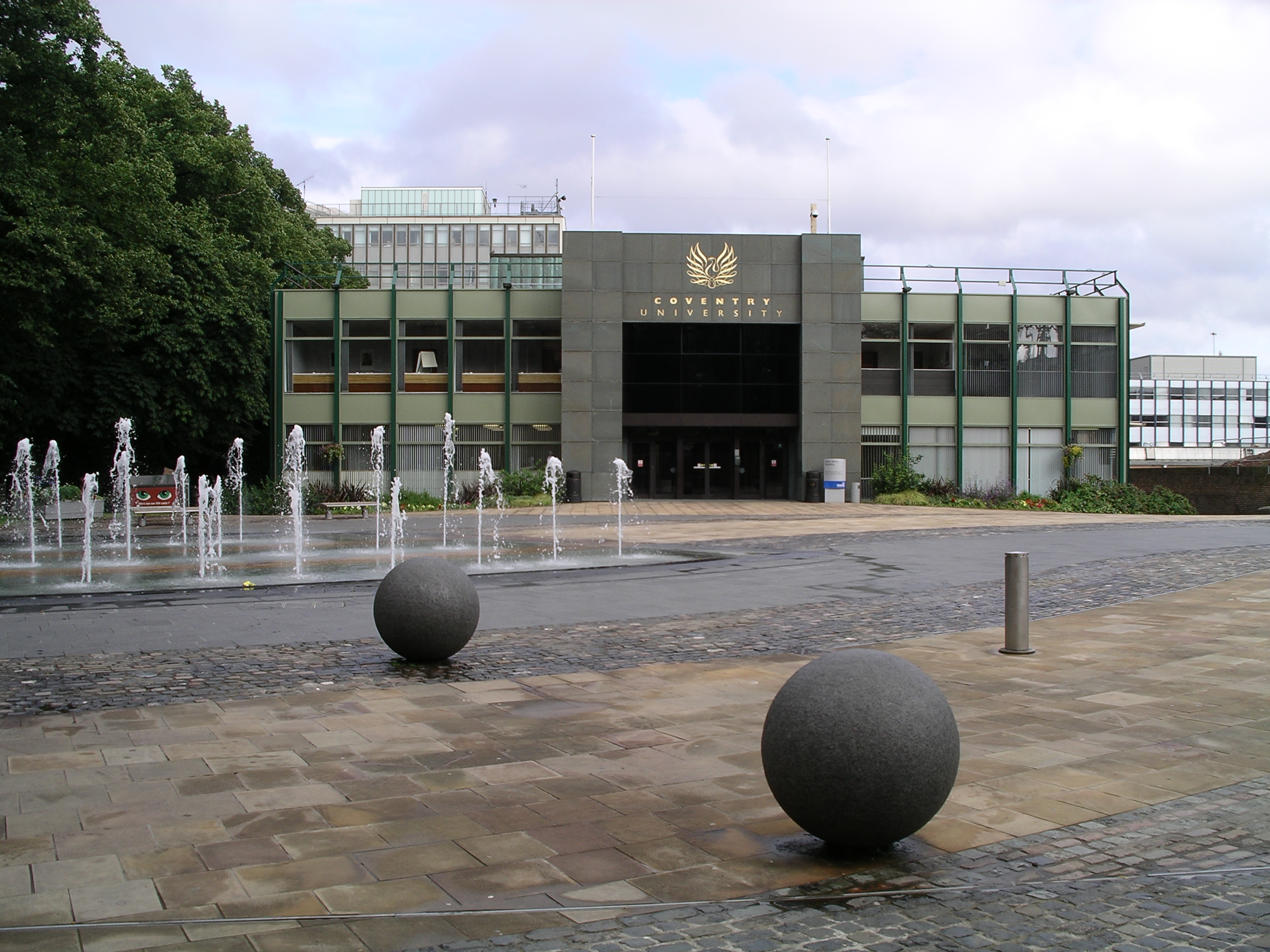 photo of Coventry Univerisity, Coventry, England